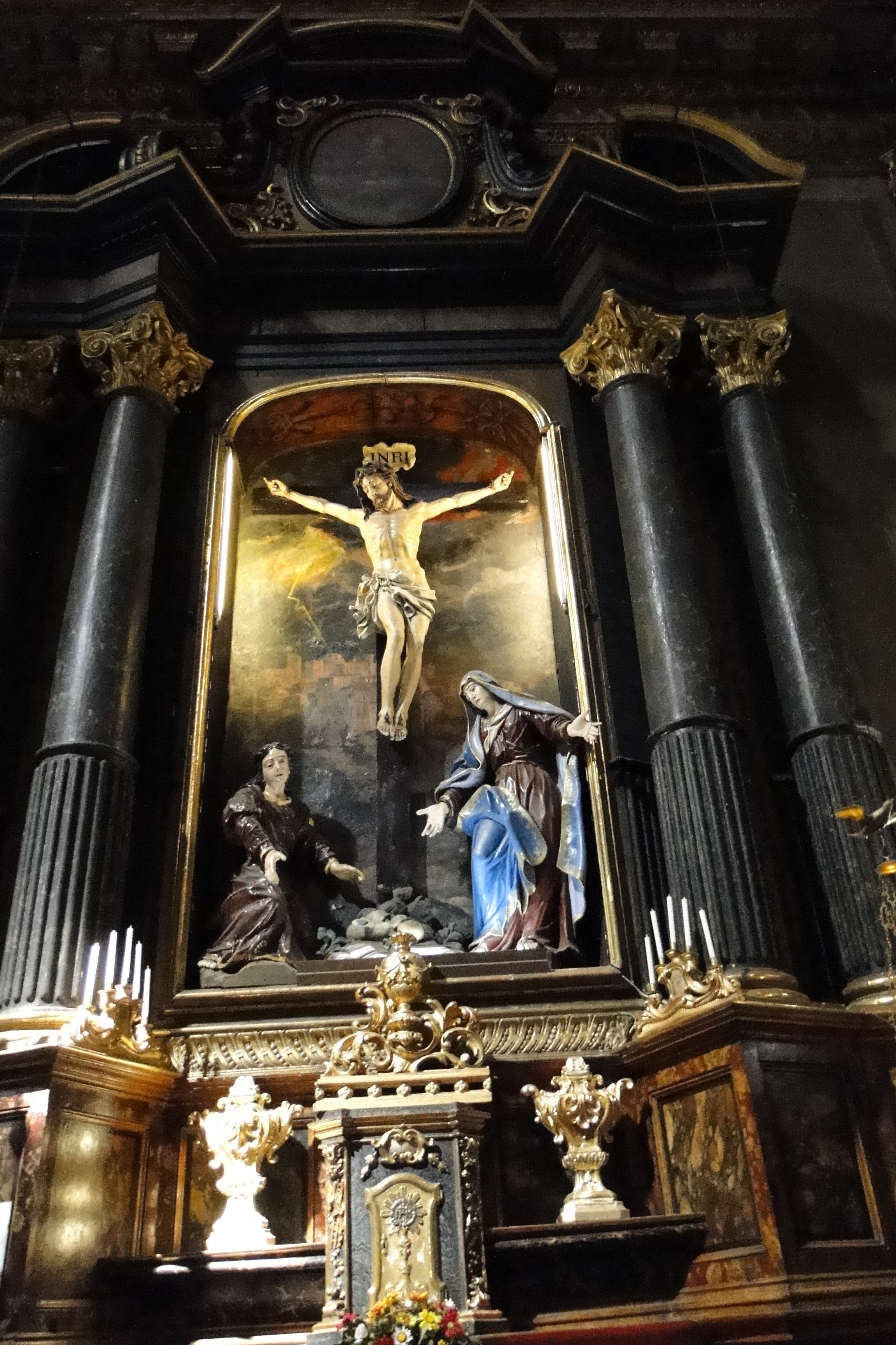 The Crucifixion of Stefano Maria Clemente, left side altar of the church of San Rocco in Turin (Italy)